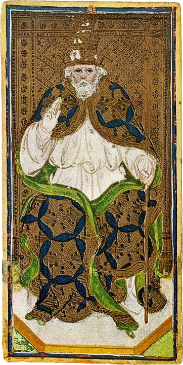 The Pope card from the Visconti-Sforza Tarot deck.